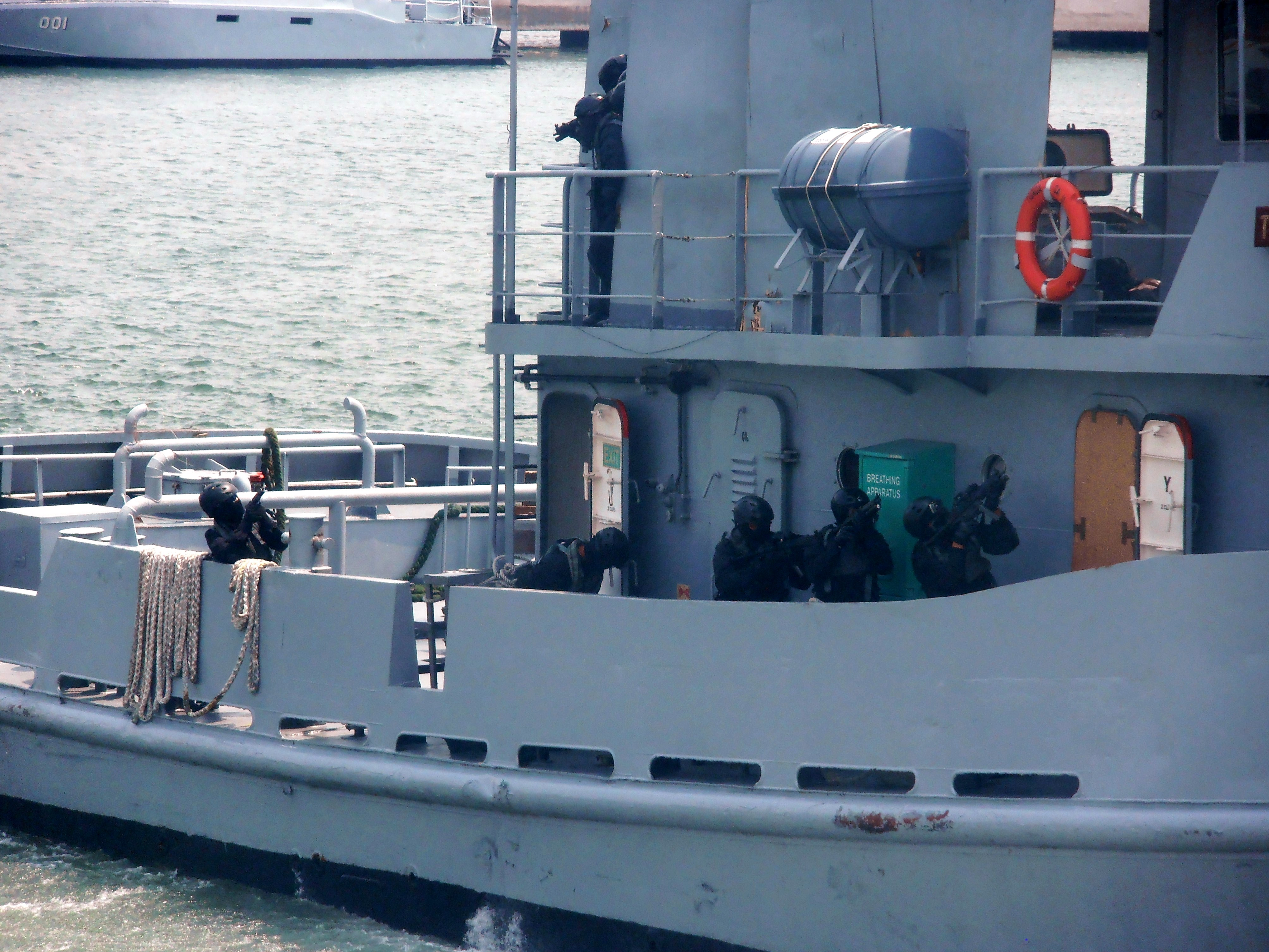 LUMUT (May 01, 2016) – A members of the PASKAL Vessel, Board, Search, and Seizure (VBSS) team prepares to breaching the door of Tunda Satu naval trawler to demonstrate the maritime hostage rescue during 82nd Anniversaries of Royal Malaysian Navy, Lumut, Perak, Malaysia.